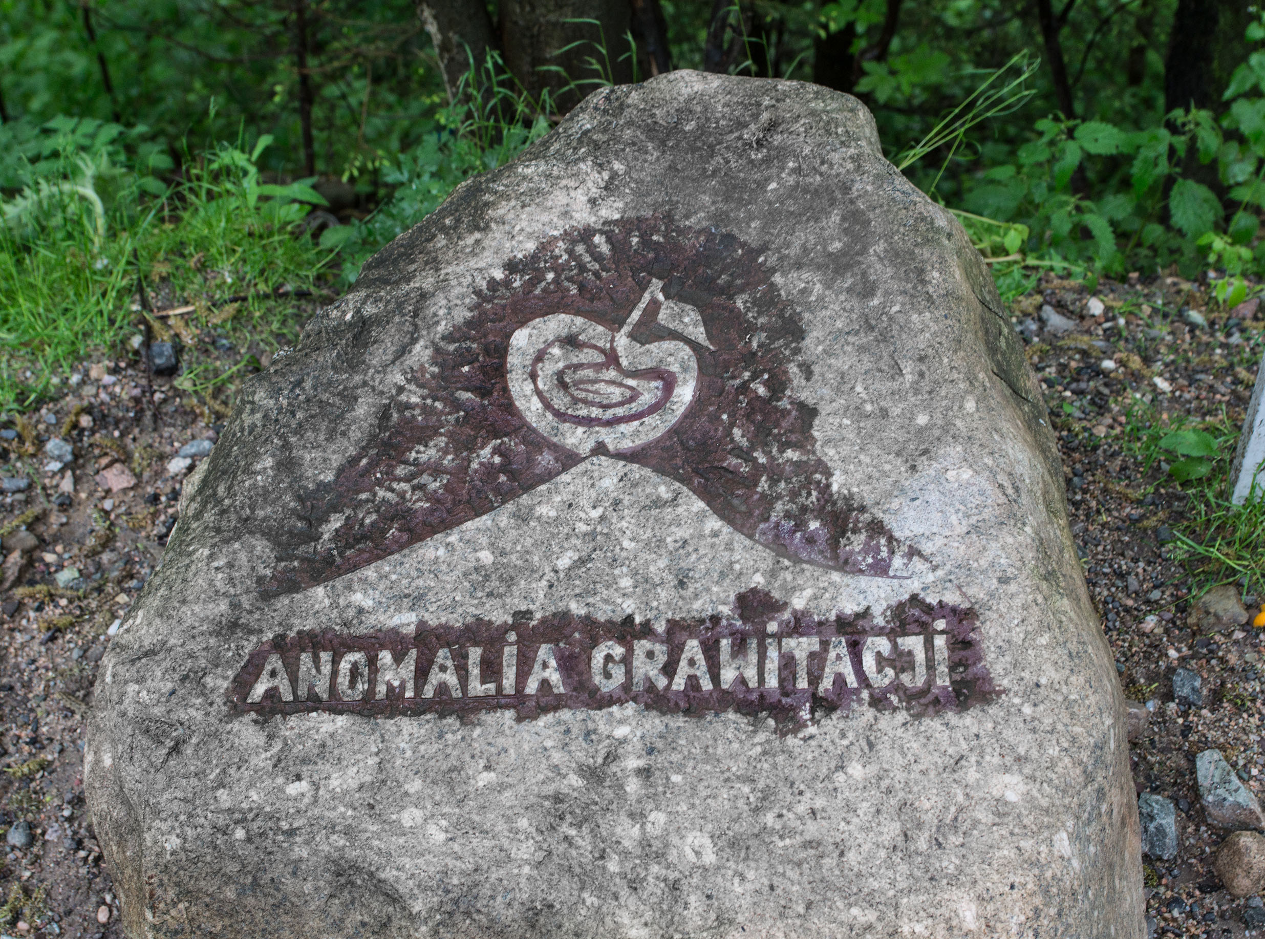 Stone sign marking a "place of disturbed gravitation" in Karpacz. Image shows Newton's apple with text saying: "gravitational anomaly".